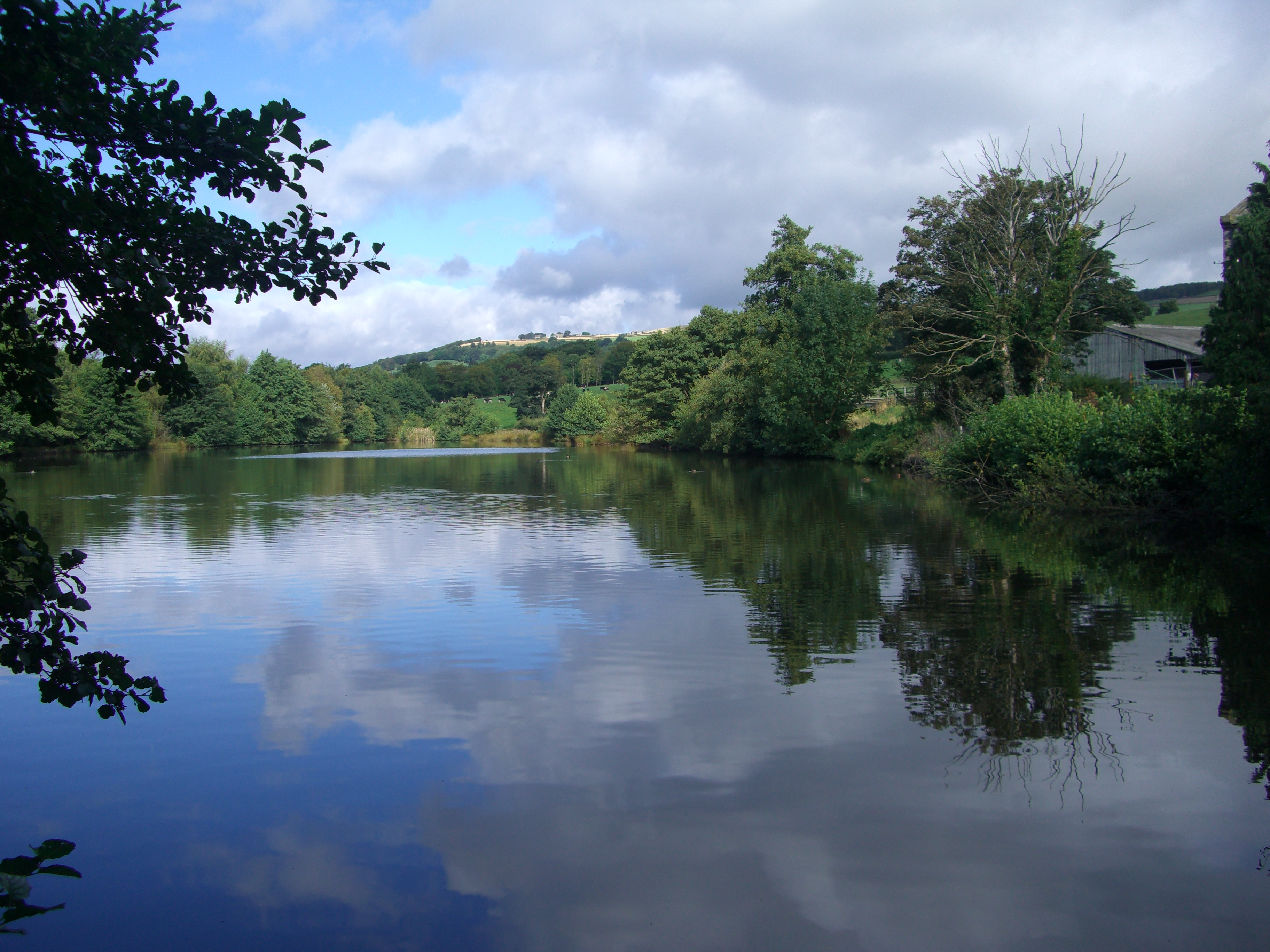 The Old Wheel Dam on the River Loxley, in the suburb of Loxley, Sheffield